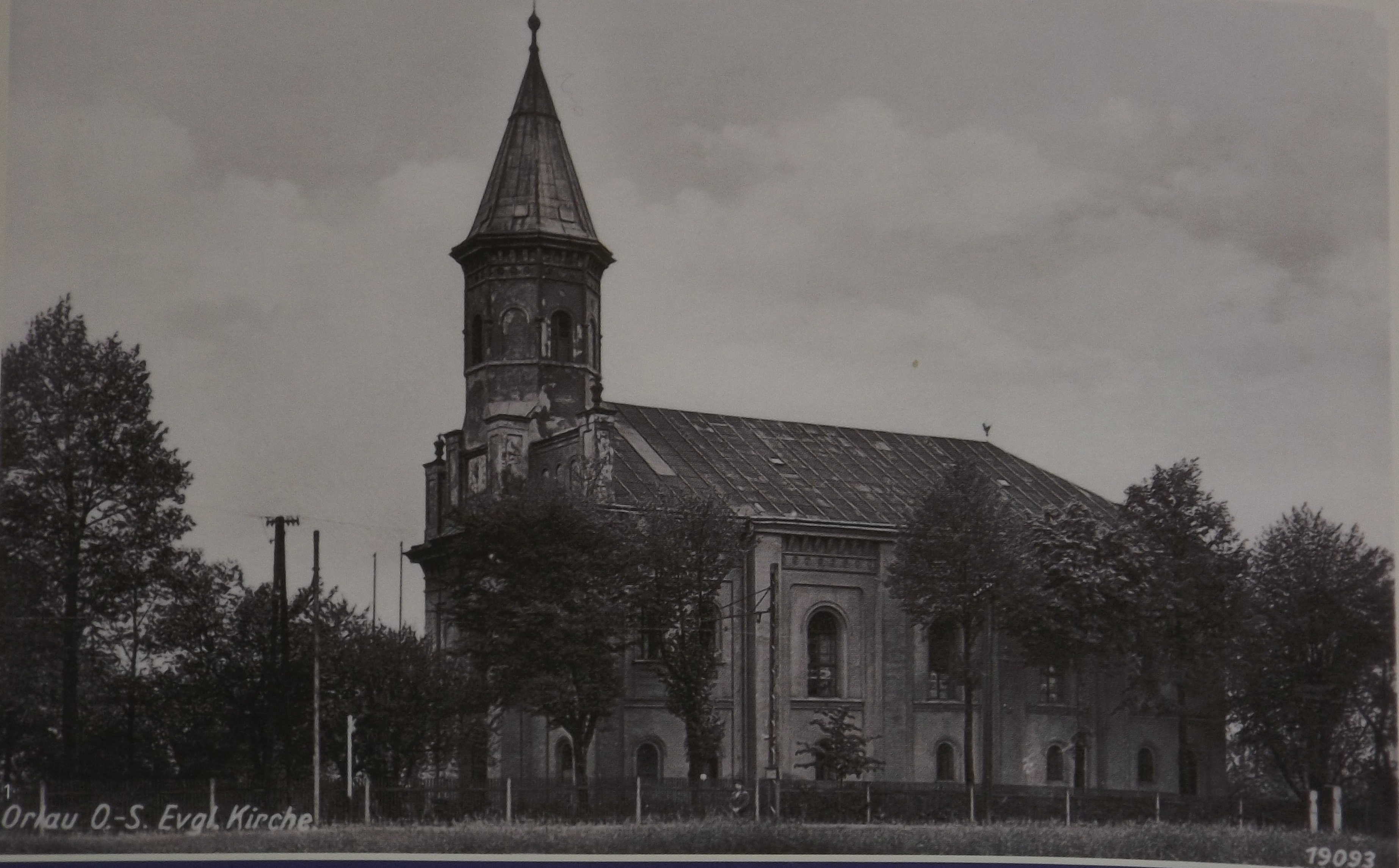 An archive photo of Lutheran church in Orlová